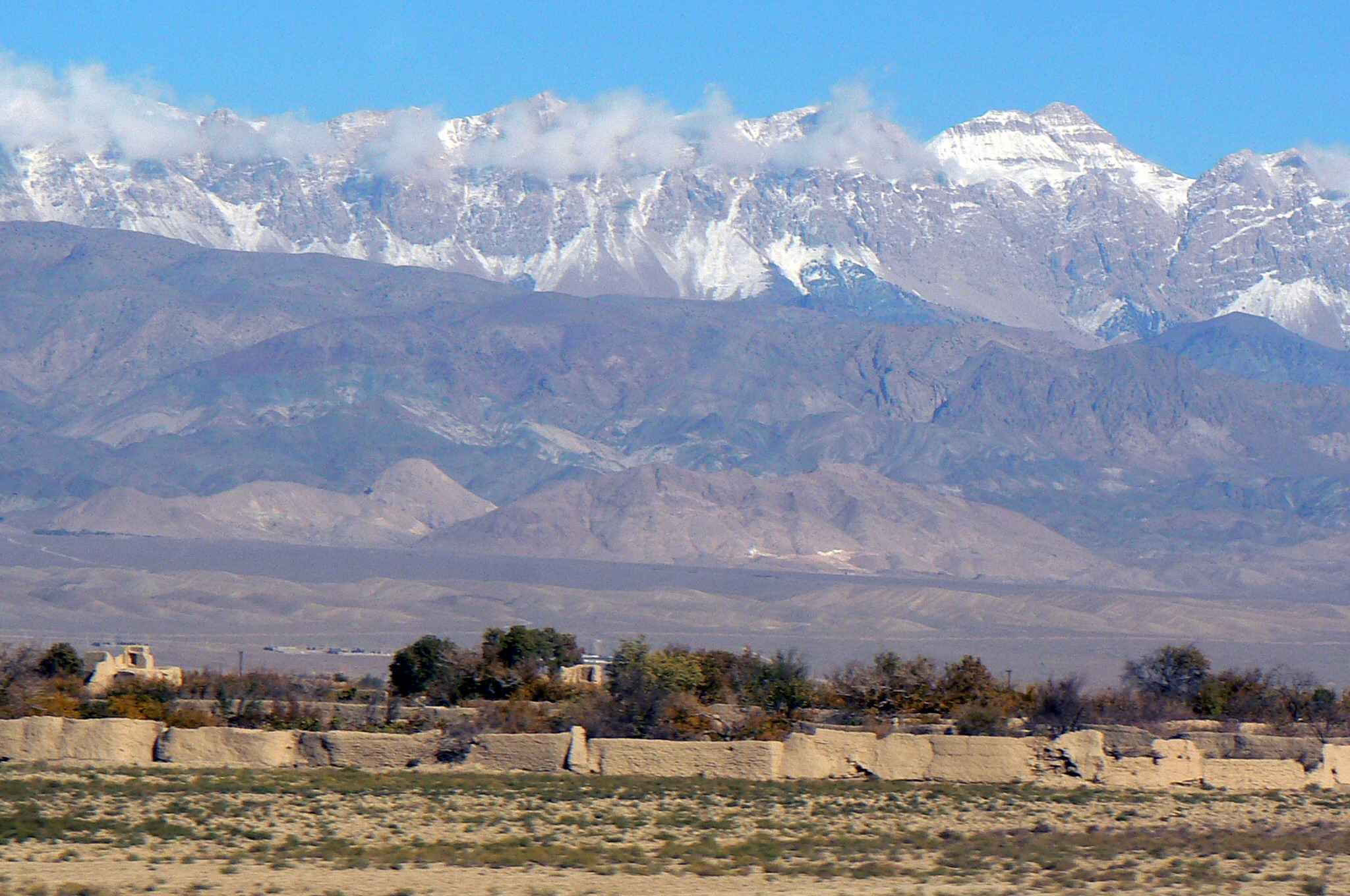 A view of Alborz Mountains in Garmsar County of Semnan Provine of Iran